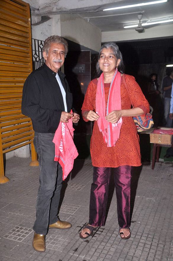 Naseeruddin Shah, Ratna Pathak at 'Gangs Of Wasseypur' screening